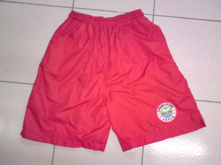 National Water Life Saving Association Shorts